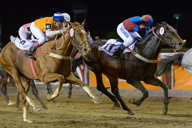 PSC Flag Nine